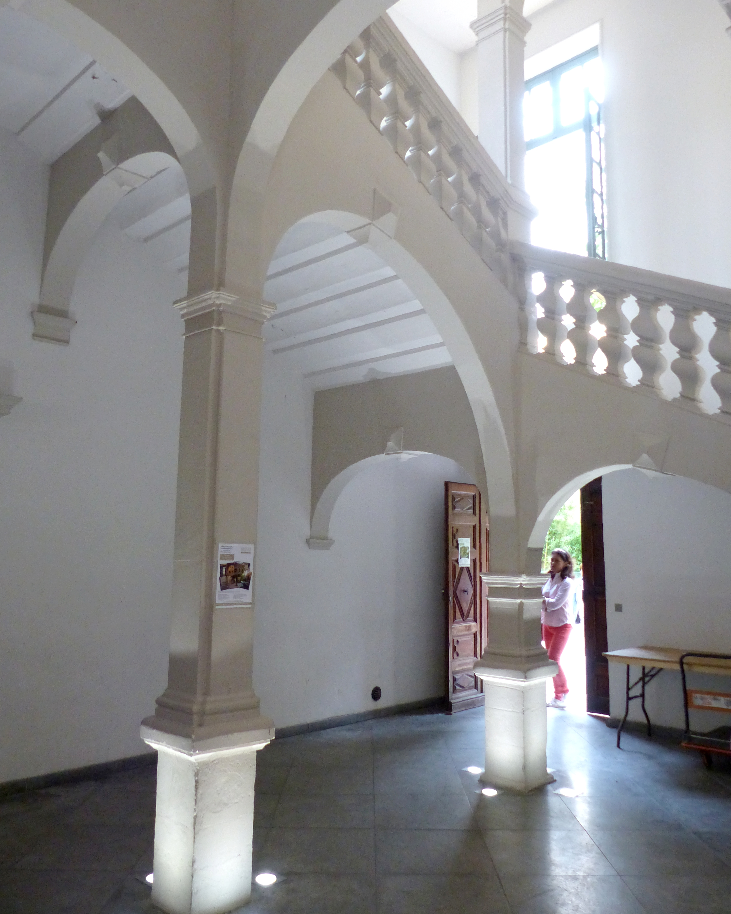 Nîmes (Gard, Languedoc, France), in the less known part of the Ecusson, historic center of the city, at 6 Fresque street (parallel to Victor Hugo boulevard), behind a sober facade redone in 1773, the merchant Leon Novi, back from Genoa, made in 1665 sumptuous arrangements inspired by Italian Baroque art.